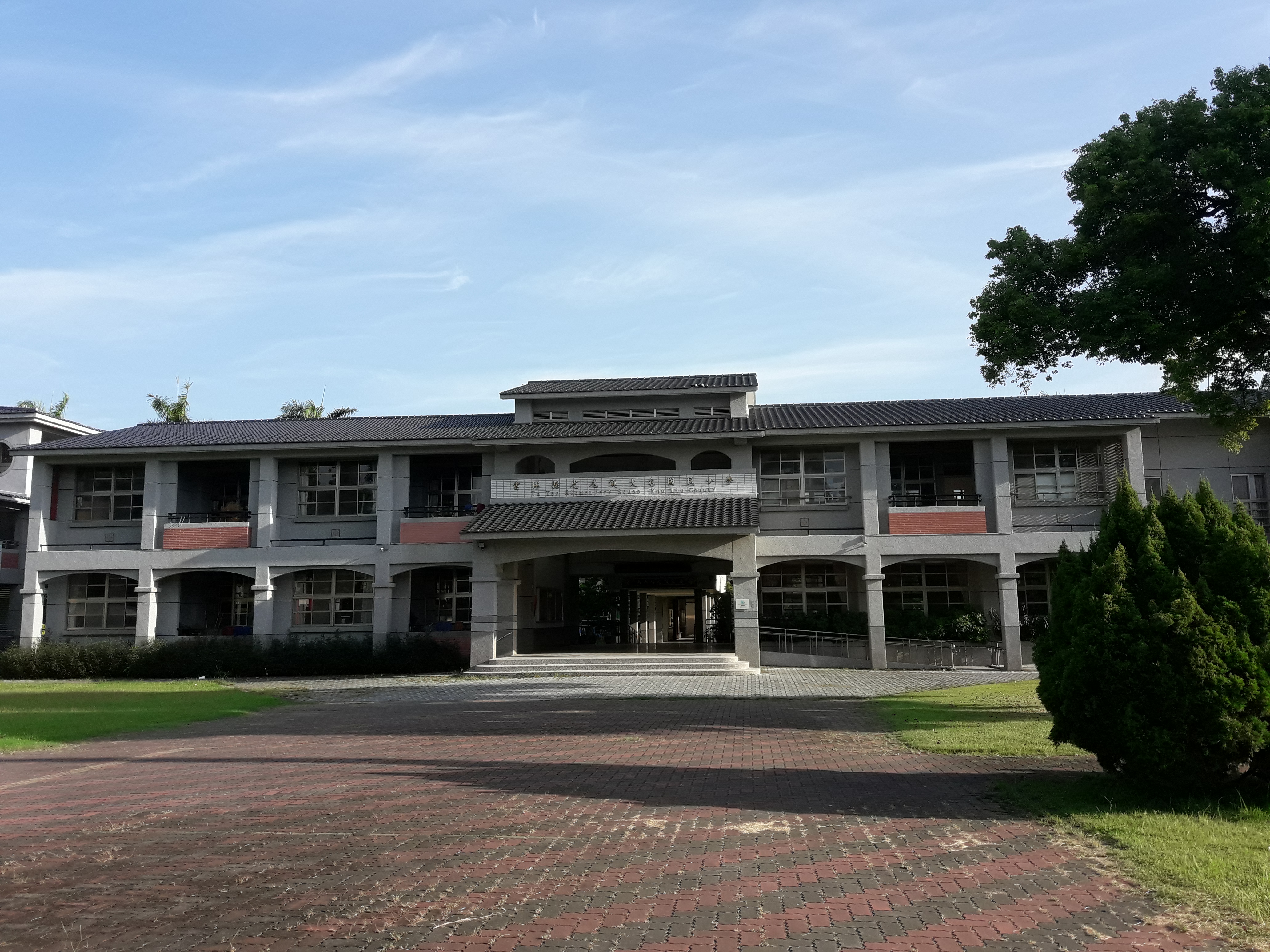 Datun Elementary School